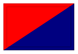 1st Canadian 6th Infantry Division formation patch